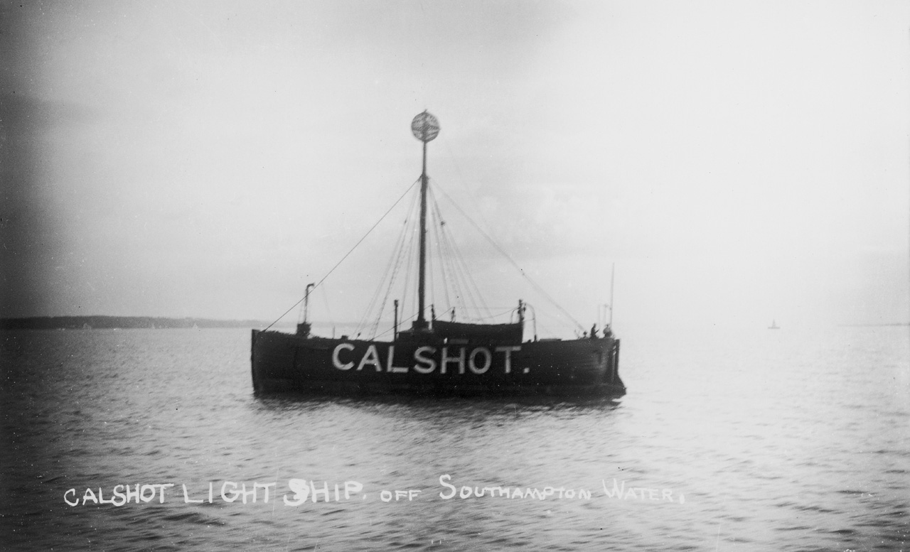 Reproduction ID: H3118 Maker: Unknown Date: 1906-10